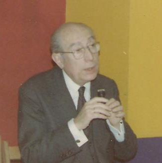 Enrique Tierno Galván